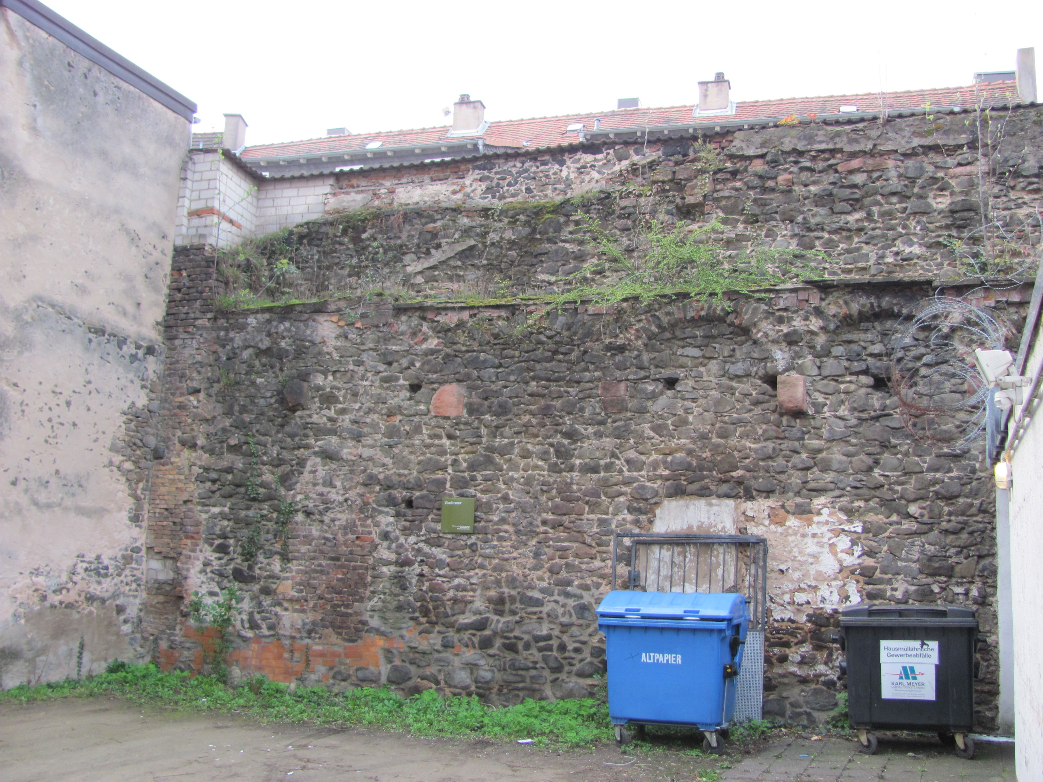 Town wall of Hanau, 14th cent.